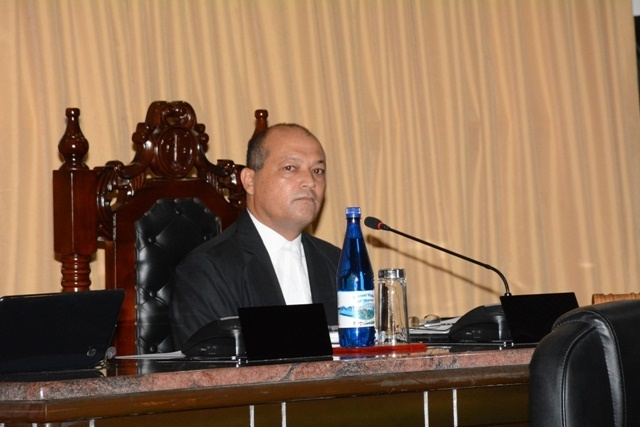 Nicholas Prea - Speaker of the Seychelles' National Assembly